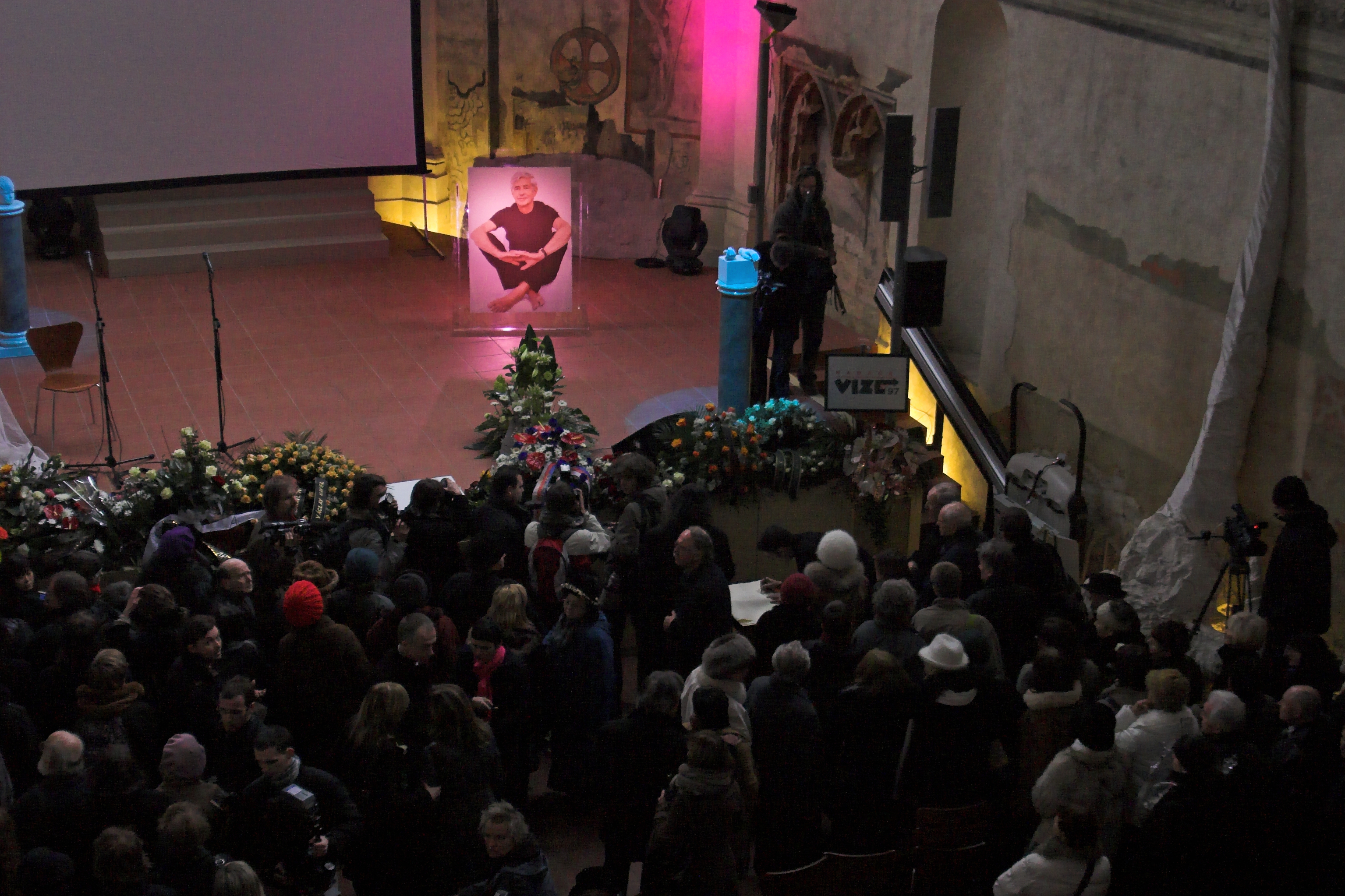 Farewell for Jan Kaplický, Prague, January 2009.